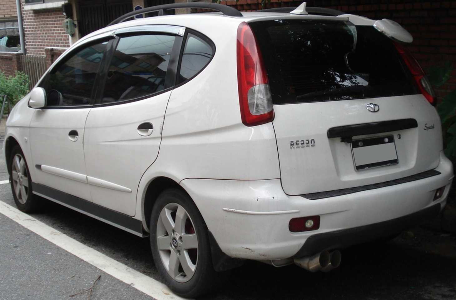 Daewoo New Rezzo